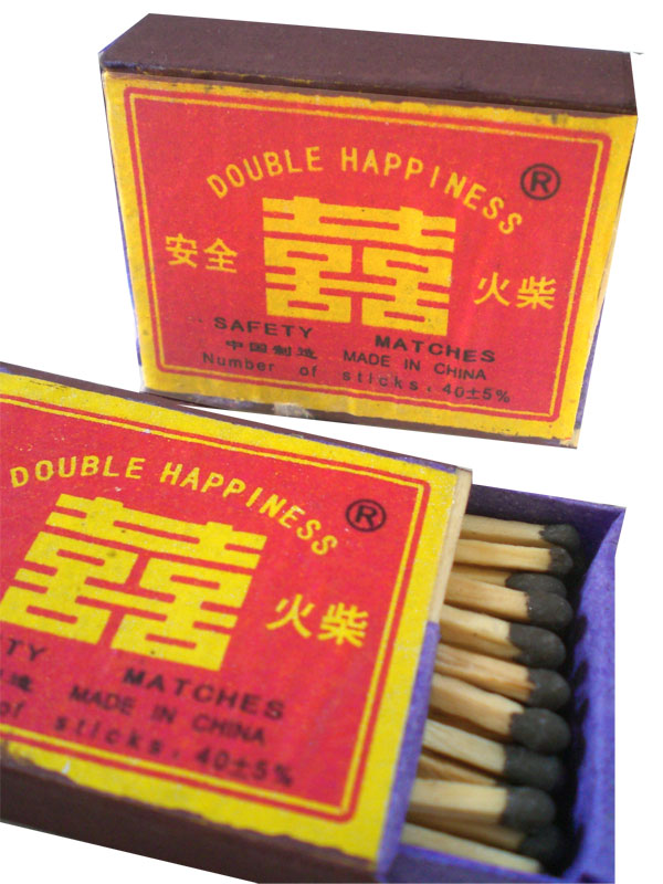 Made in China 中華老字號 紅雙囍火柴